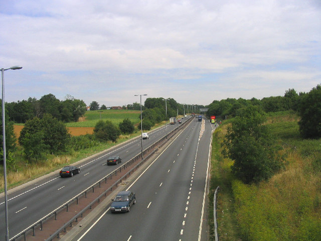 A12, Brentwood, Essex. Looking north-east from the Weald Road bridge.